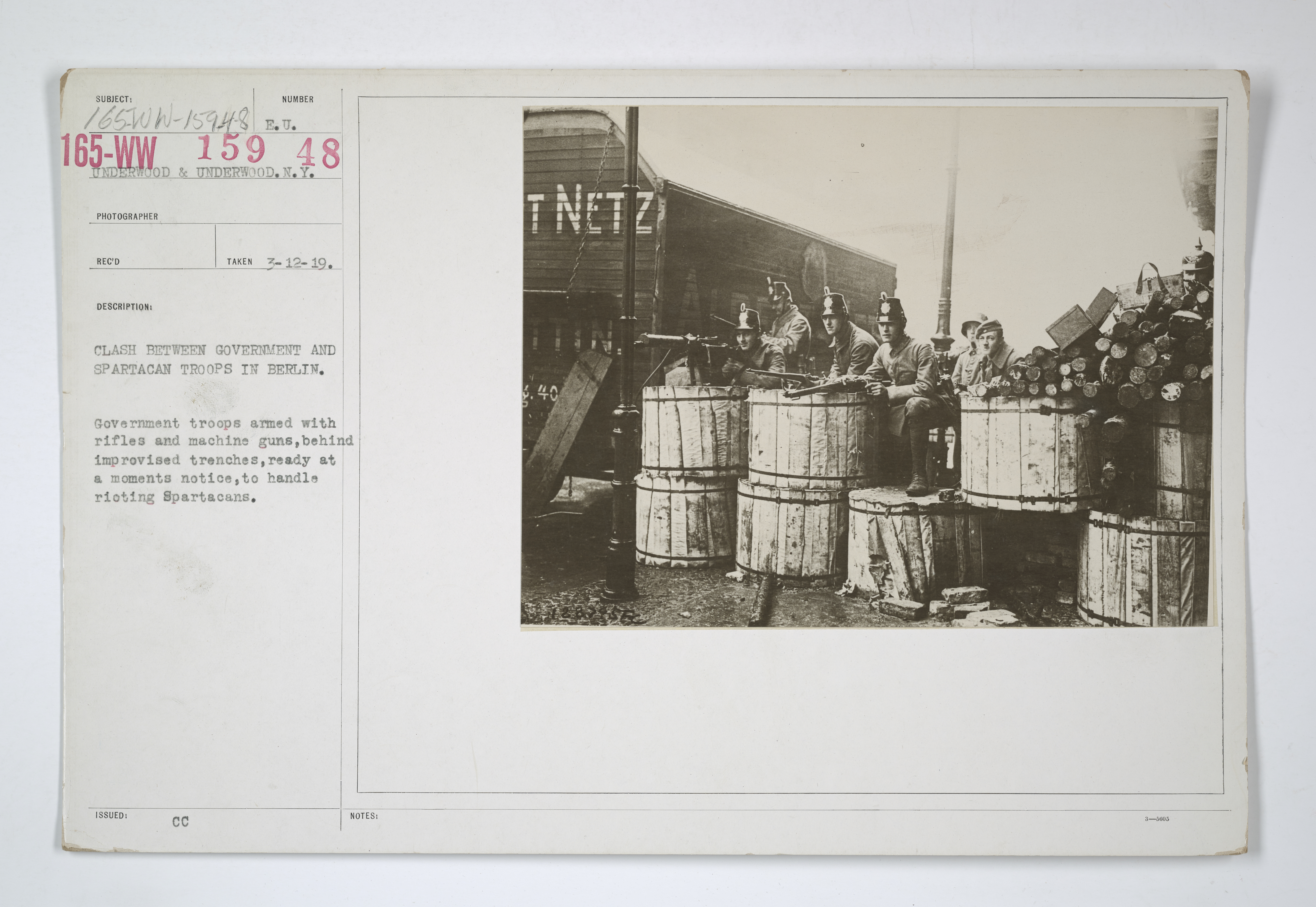 Scope and content: Date Taken: 3/12/1919 Photographer: Underwood and Underwood